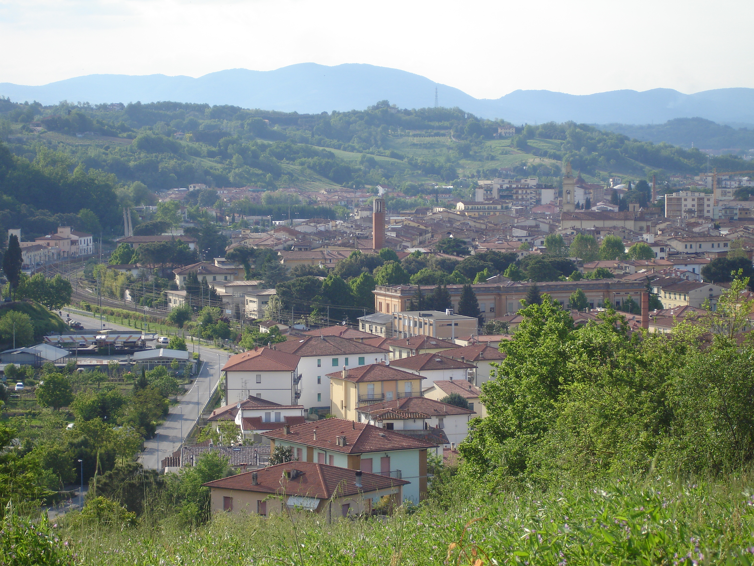 Panorama of the city of Montevarchi from Cecchettino Hill